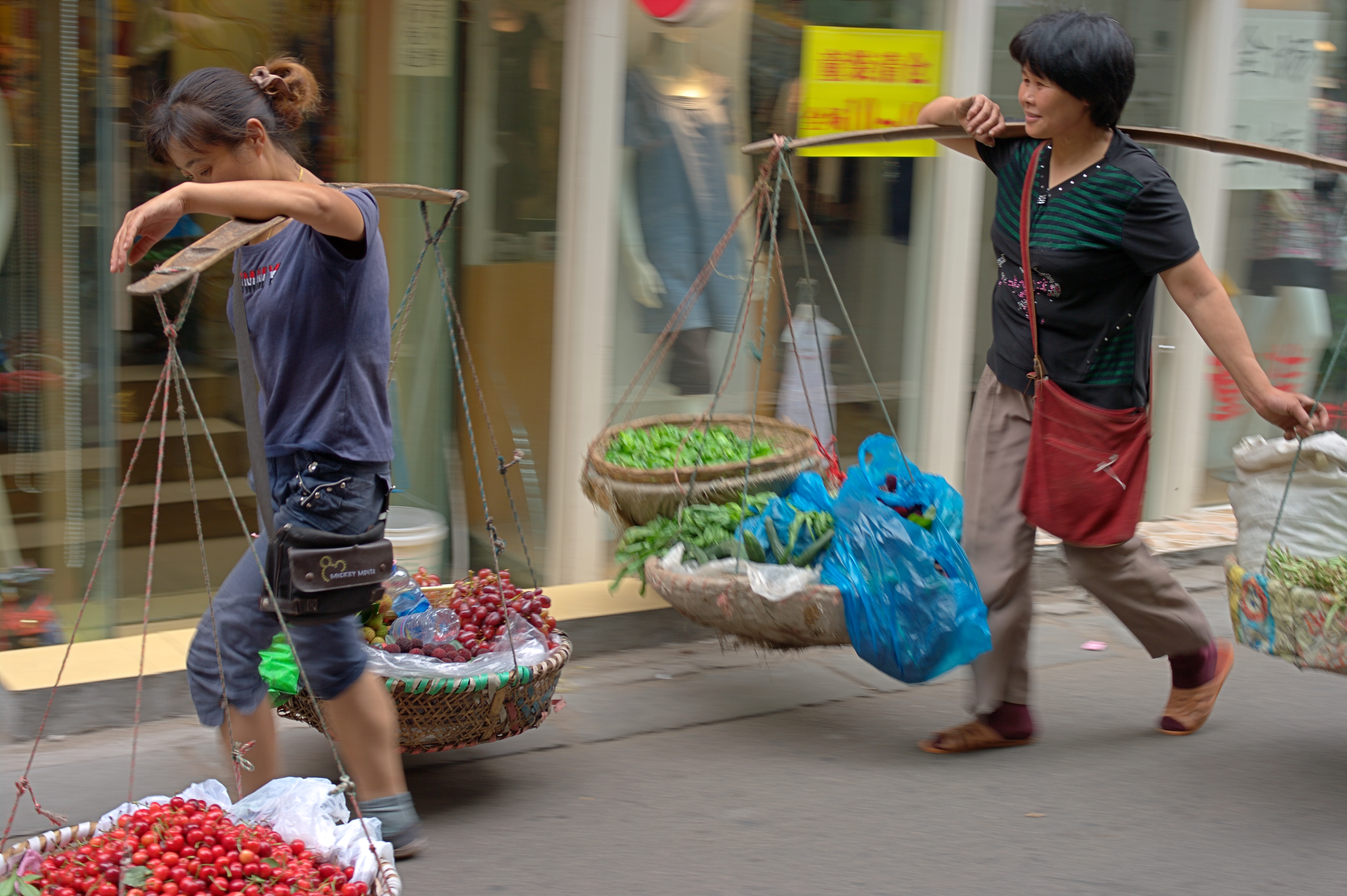 Two Chinese women are carrying basket in traditional way. Nanjing, China.